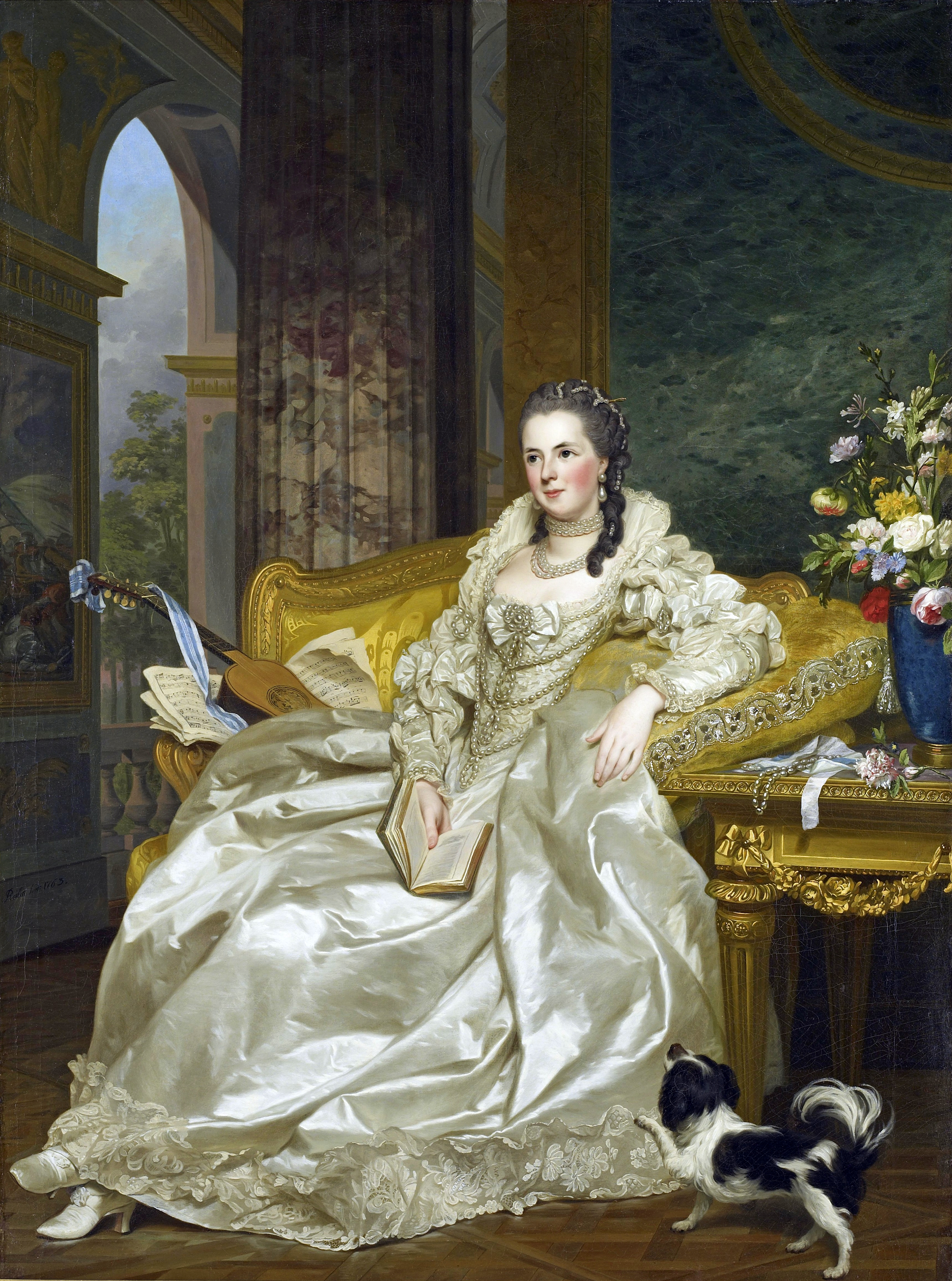 woman wearing a white satin gown trimmed with lace and pearls, holding a book, and seated on a yellow sofa; woman wears pearl necklaces and earrings, with her hair decorated with pearls; guitar and music next to woman on sofa; black and white lap dog in LRC